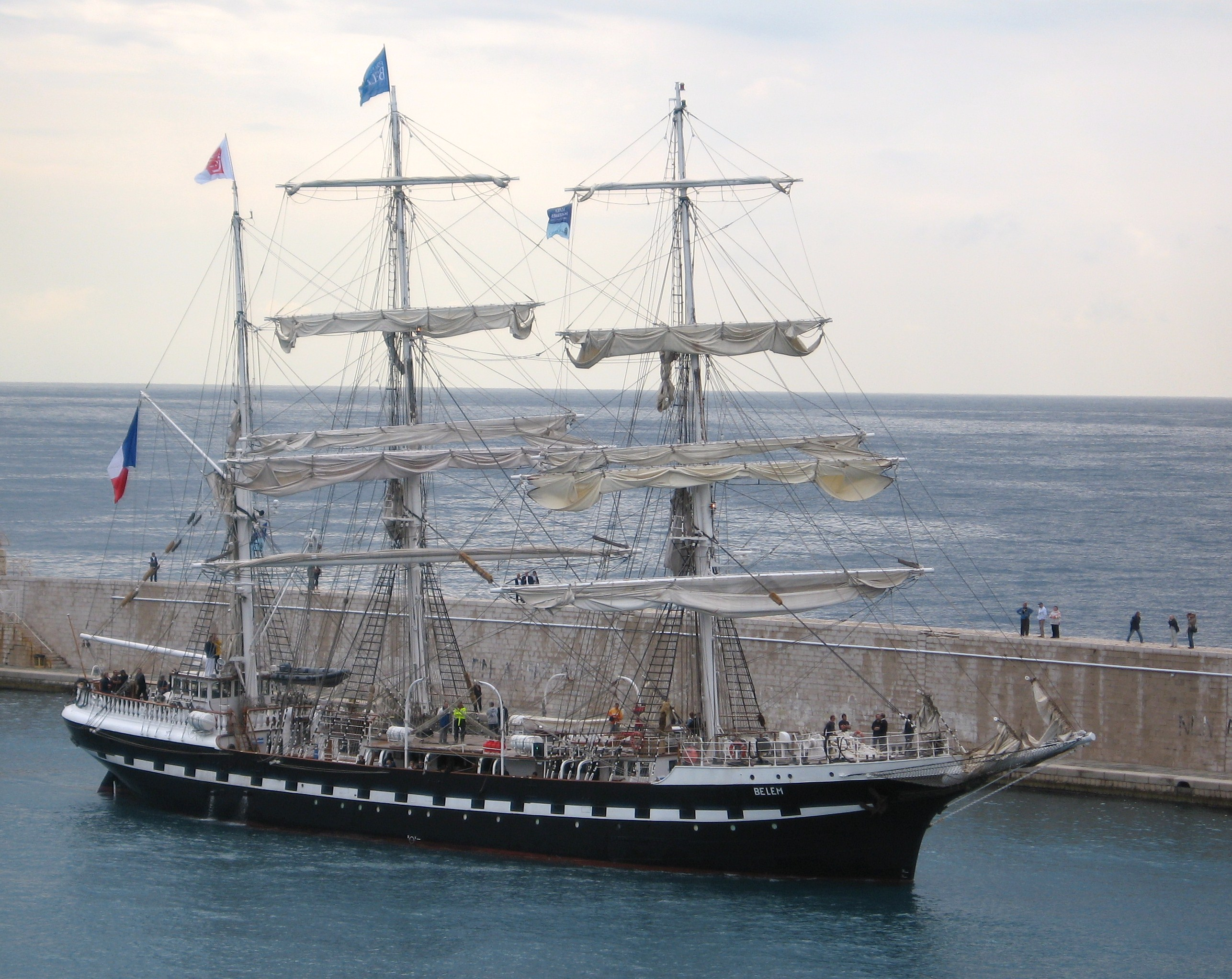 Belem sailing into Nice harbour